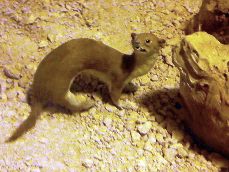 Taxidermied least weasel (Mustela nivalis) at the National Museum of Natural History, Vilhena Palace, Republic of Malta.